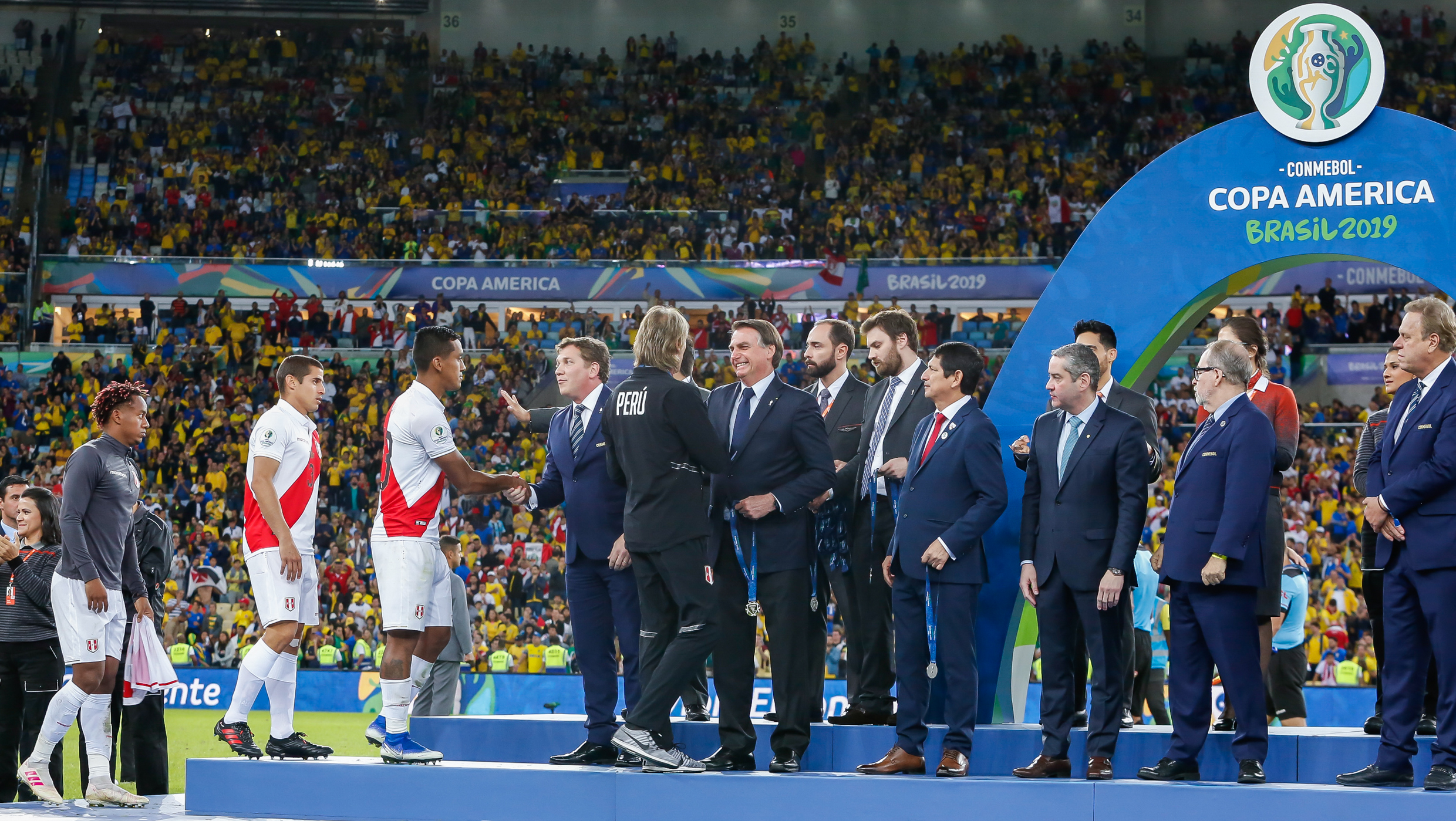 (Rio de Janeiro - RJ, 07/07/2019) Presidente da República, Jair Bolsonaro, e o Presidente da Confederação Sul-Americana de Futebol (CONMEBOL), Alejandro Domínguez, durante entrega da premiação da Copa América 2019. Foto: Carolina Antunes/PR